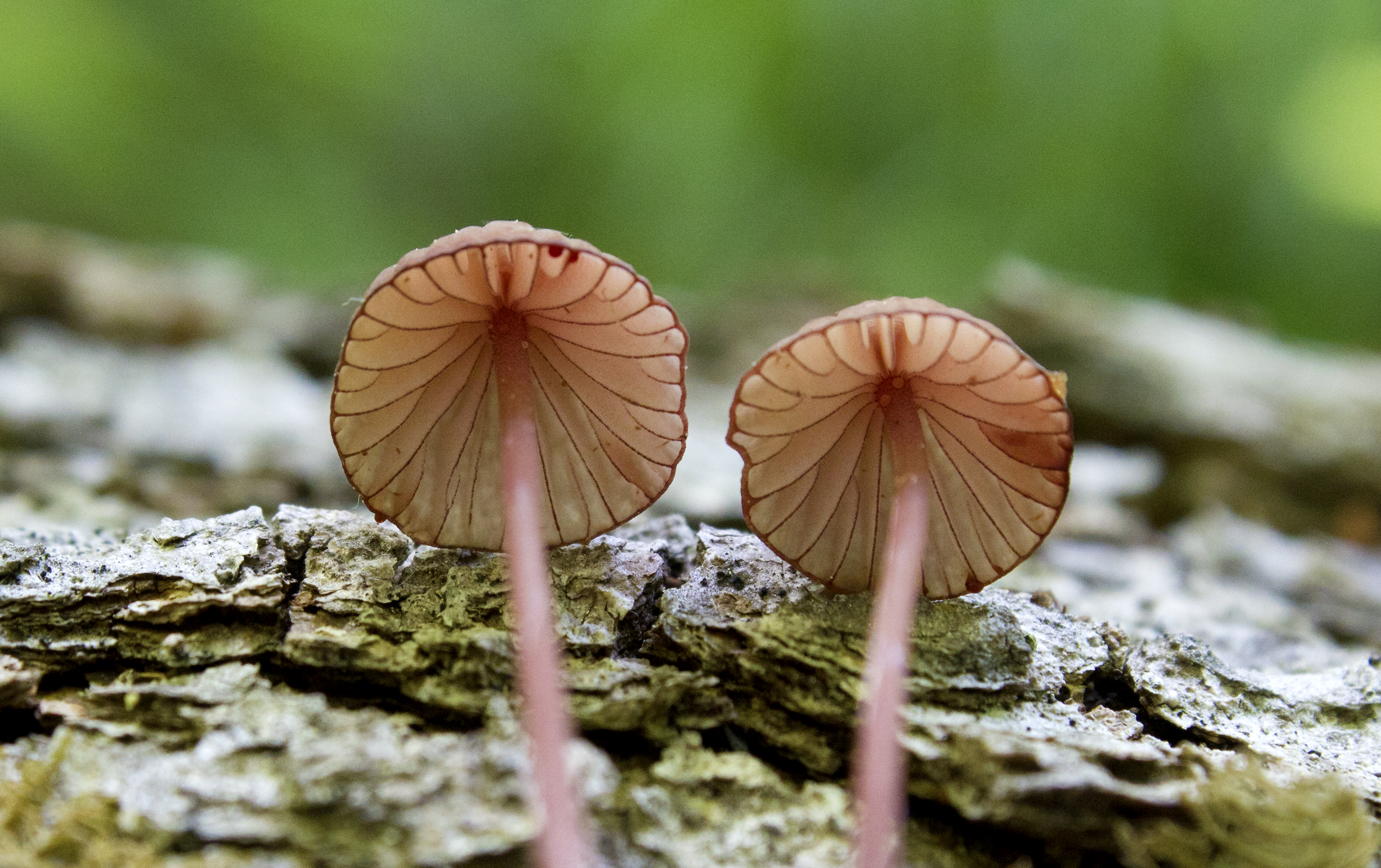 Mycena sanguinolenta (Alb. & Schwein.) P. Kumm. Image location: Oxford Co., Maine, USA on decaying hardwood bark or bark/leaf mold Recognized by sight For more information about this, see the observation page at Mushroom Observer.